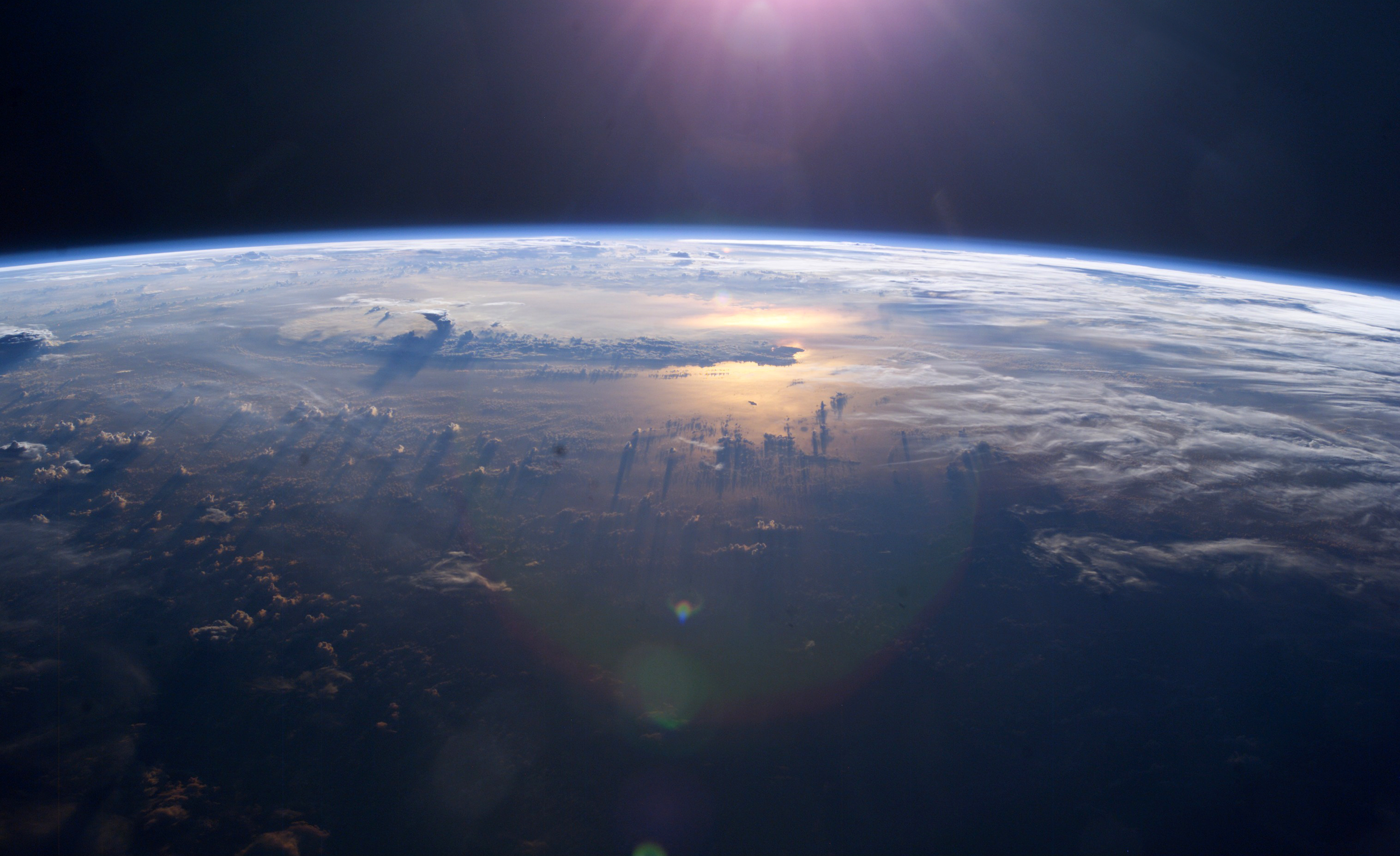 This view of Earth's horizon as the sun sets over the Pacific Ocean was taken by an Expedition 7 crew member onboard the International Space Station (ISS). Anvil tops of thunderclouds are also visible.